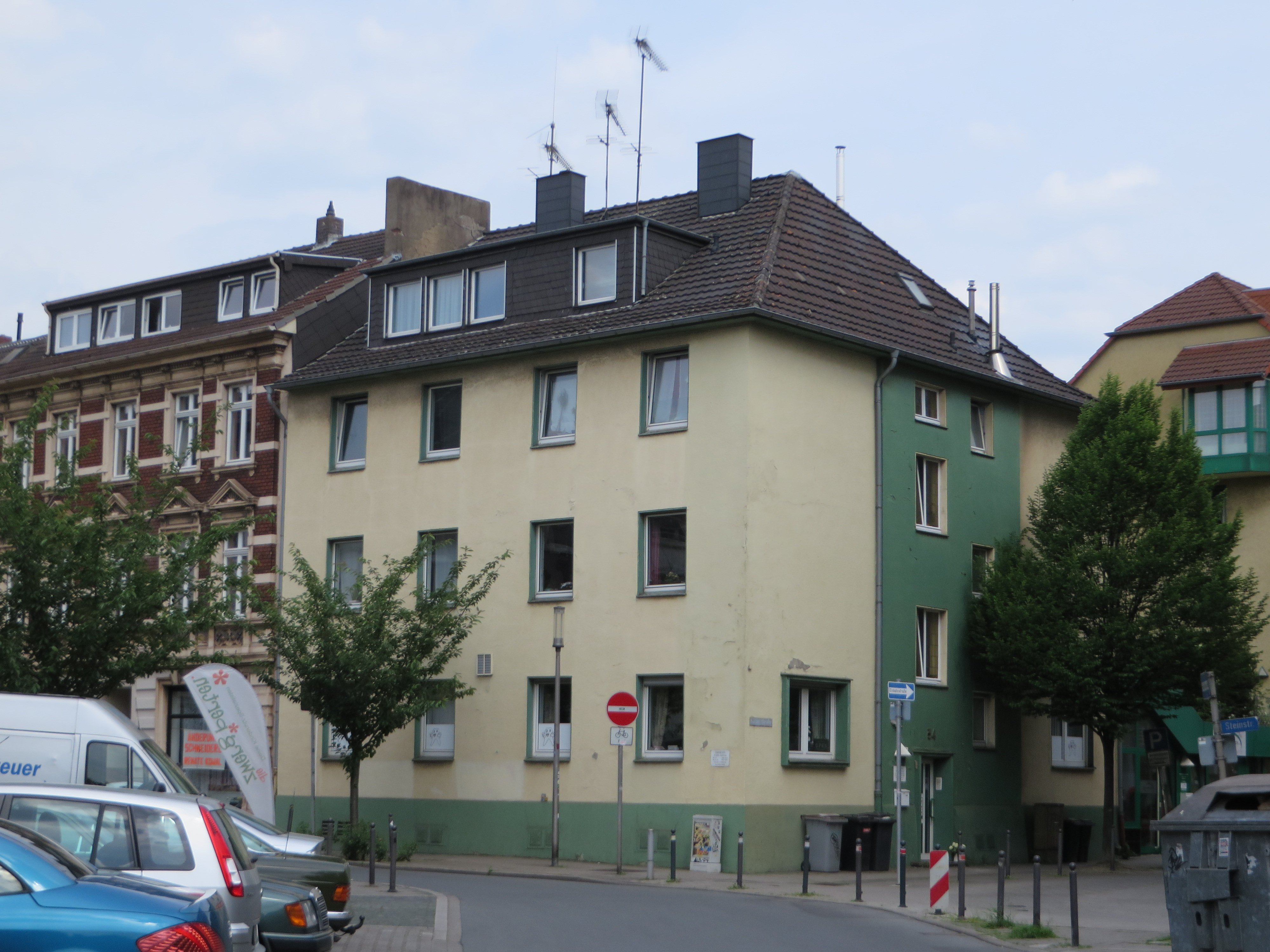 House Körnerstraße 34 in Witten, Germany